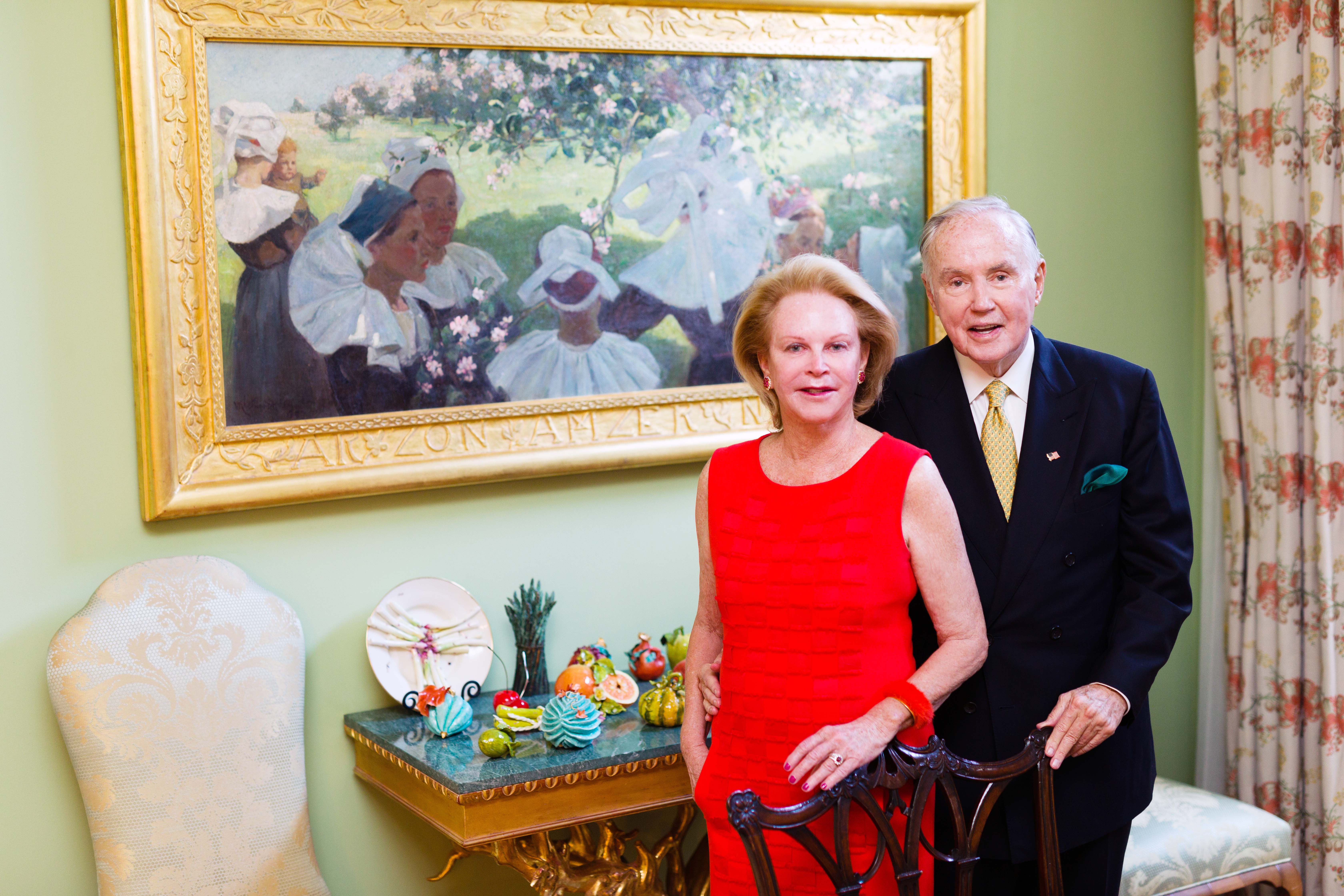 Photo by Chris Salata/Capehart Copyright 2016